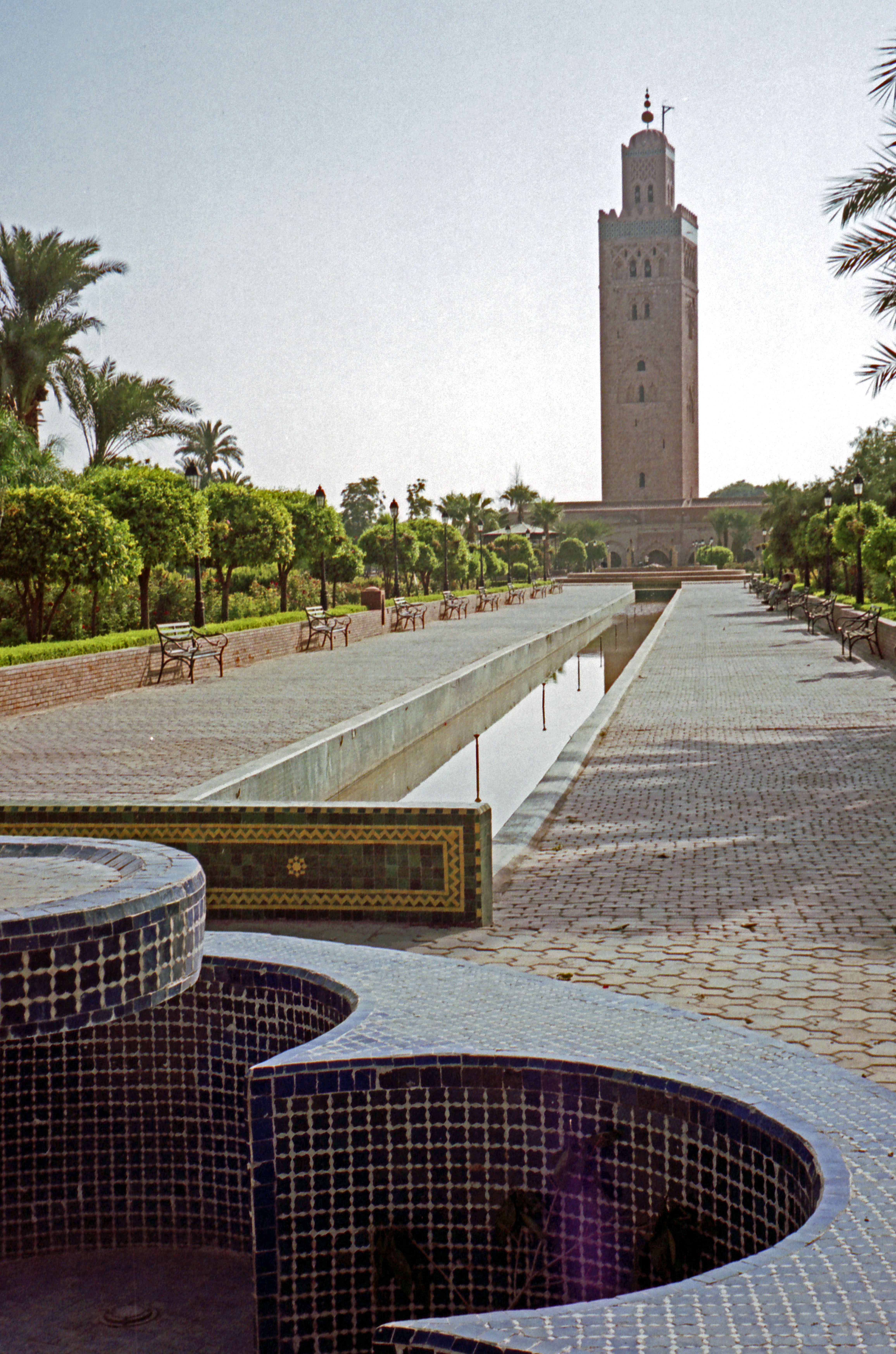 The Mosque of Koutoubia was first built in 1147 but demolished since it was not correctly aligned with Mecca, the “Mosque of the Booksellers”, was finished in its present shape in 1199. It has been a landmark ever since. Its style is a Almohad, but has a good deal of simple Andalucian elements added to it. The minaret rises 77 meters above the ground, while the mosque is sizeable by itself. While it has a strict appearance in red stone today, it is believed that it originally was covered with plaster. Marrakech, Morocco